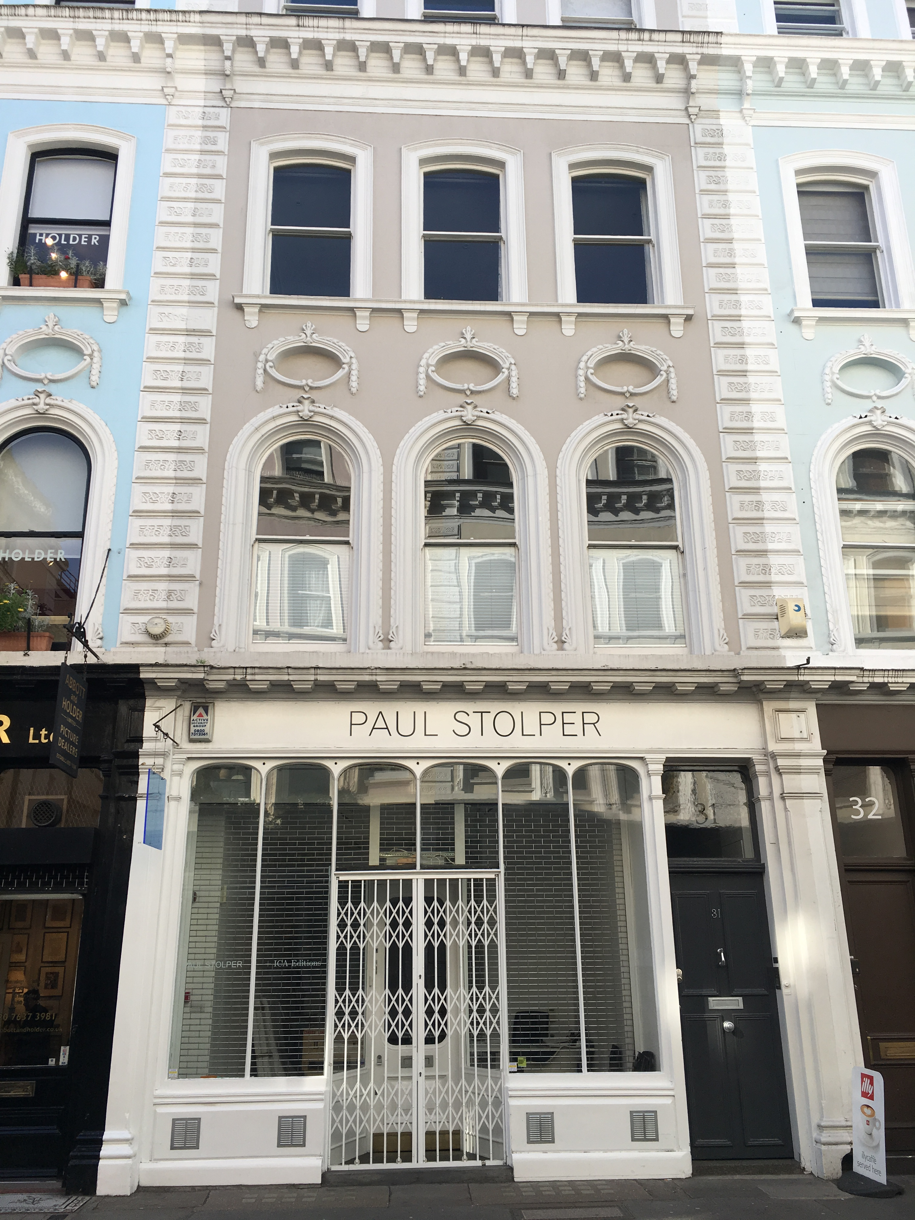 Paul Stopler Gallery